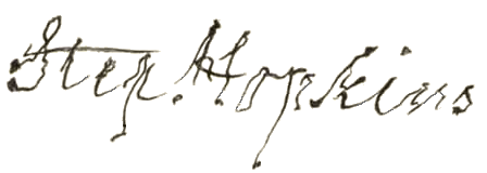 Stephen Hopkins's signature